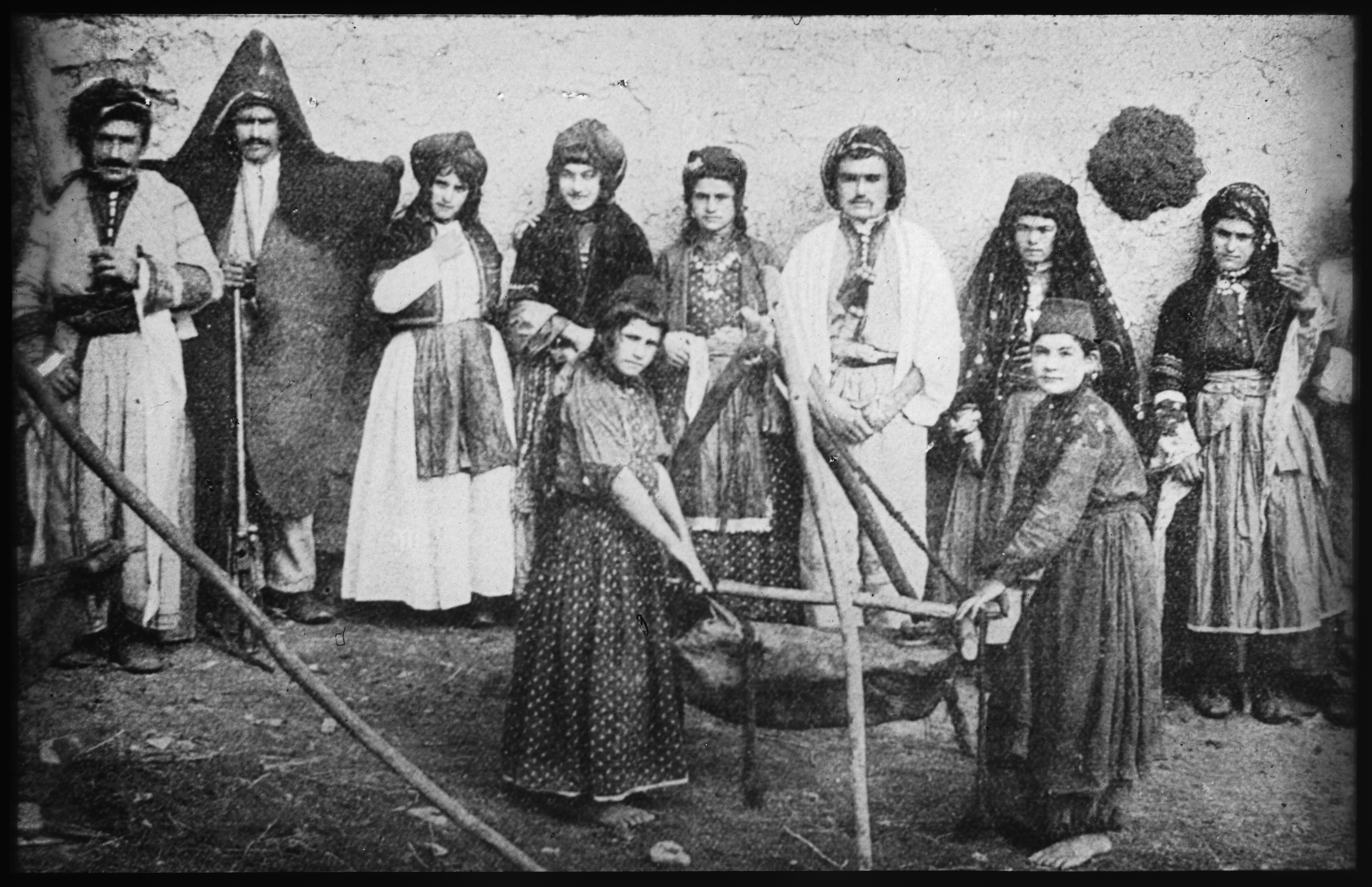 The photo has been retrieved from the National Archival Service of Norway. The photo is part of a series of reversal film photos from Bodil Biørn, a Norwegian missionary, humanitarian, nurse and midwife. She was engaged in humanitarian work in Armenia and Syria, amongst other places, through the association Kvinnelige Misjonsarbeidere. Original caption (translated): Kurds, cow farming in the mountains